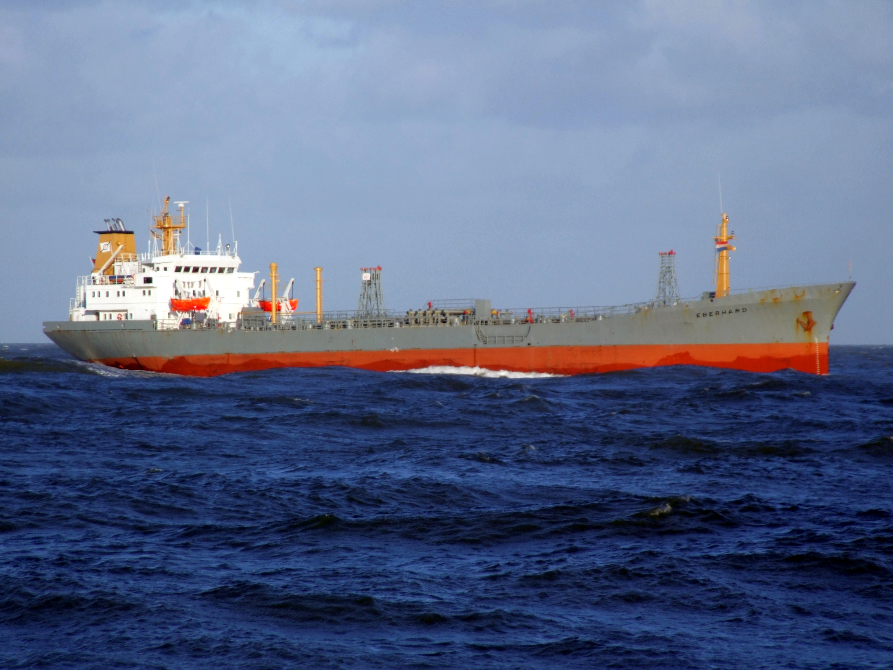 Eberhard IMO 8209652 approaching Port of Rotterdam, Holland 12-Dec-2006.